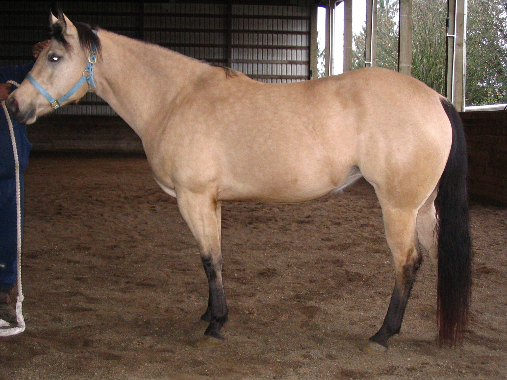 Among the last pictures I took of Mara. I release all rights to this image and grant it into the public domain. Attribution is not required.